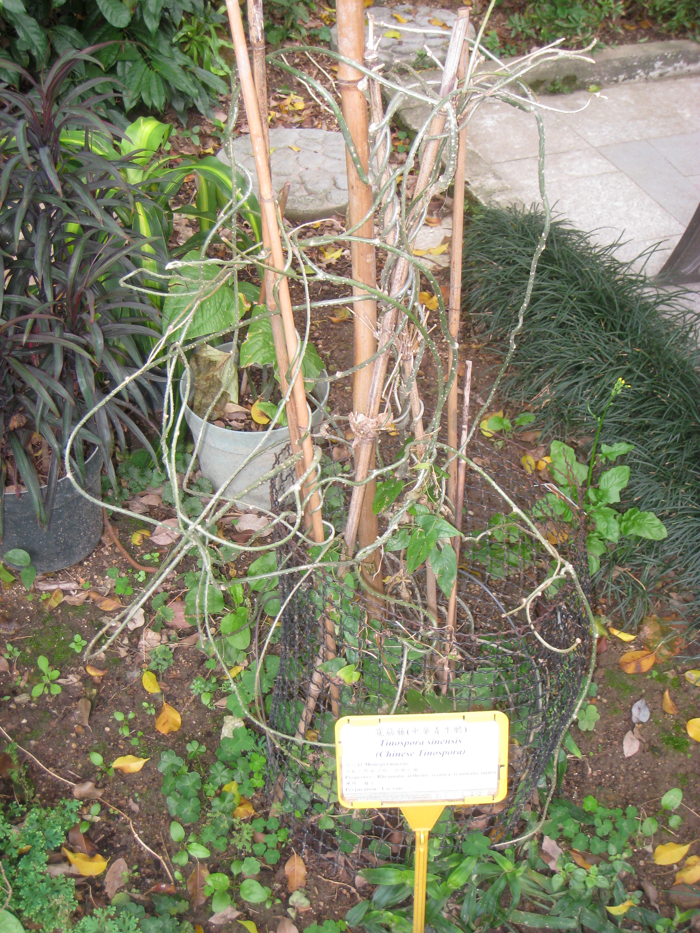 Tinospora sinensis. Plant specimen in the Hong Kong Zoological and Botanical Gardens, Hong Kong.